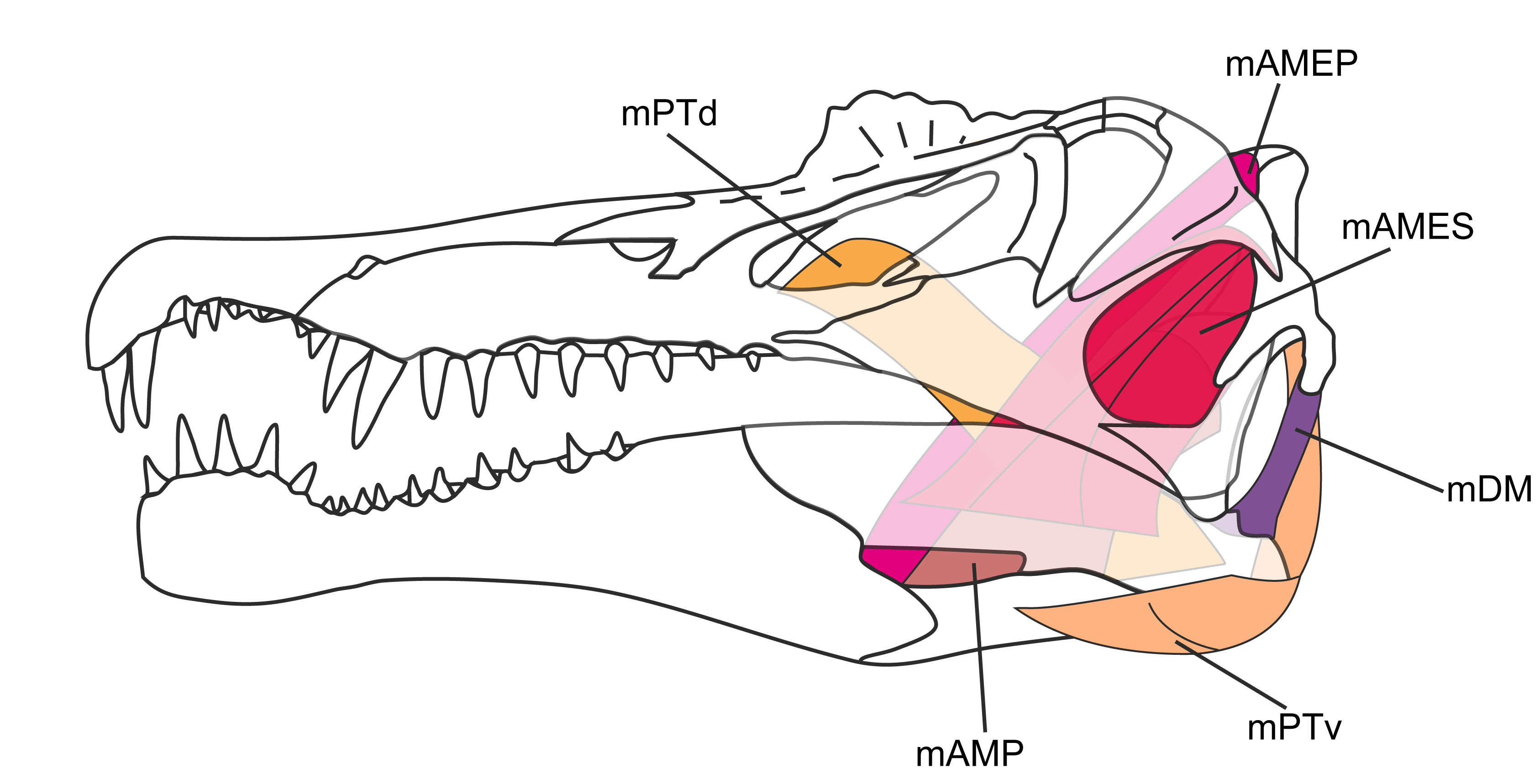 Reconstitution of muscles in the skull of Spinosaurus aegyptiacus